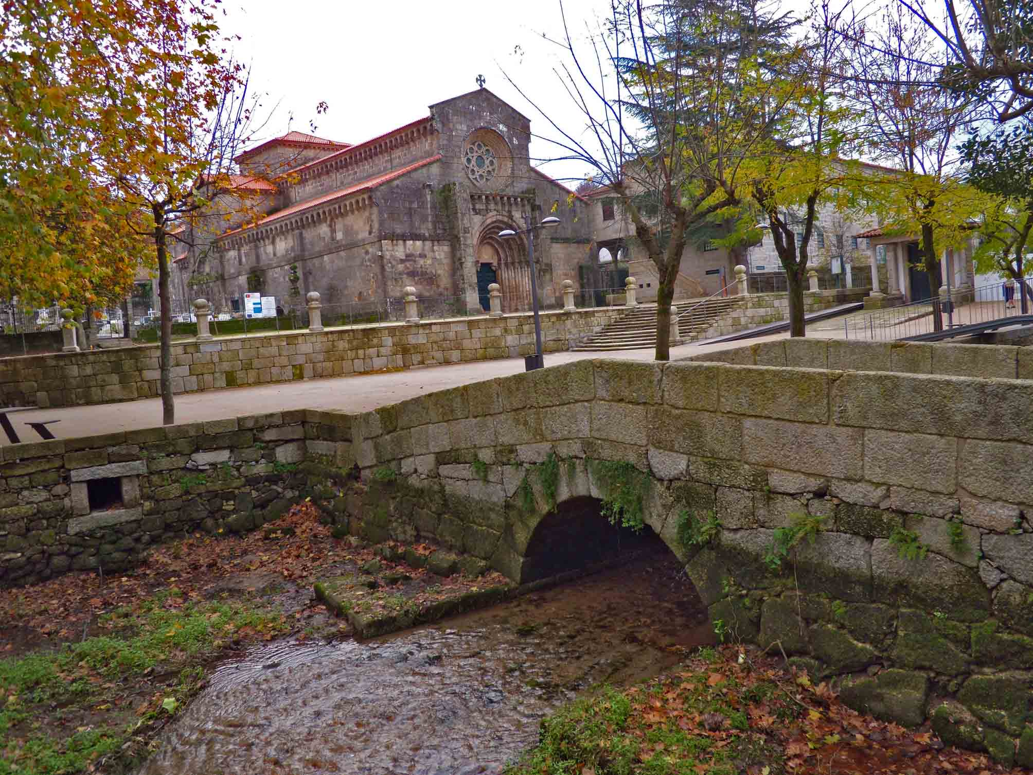 Monastery of Paço de Sousa, Penafiel - Portugal